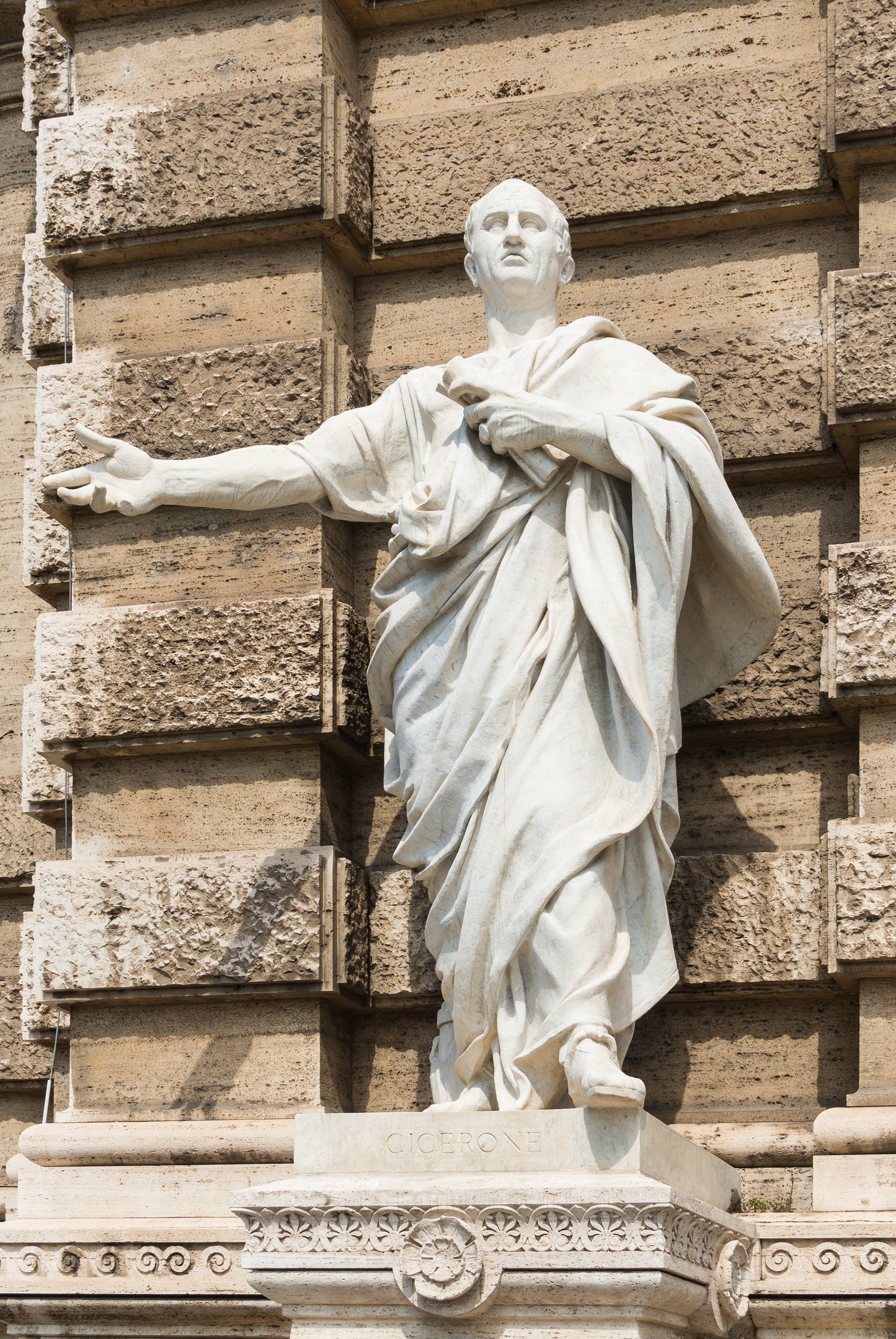 Statue of Cicero, Courthouse, Rome, Italy.